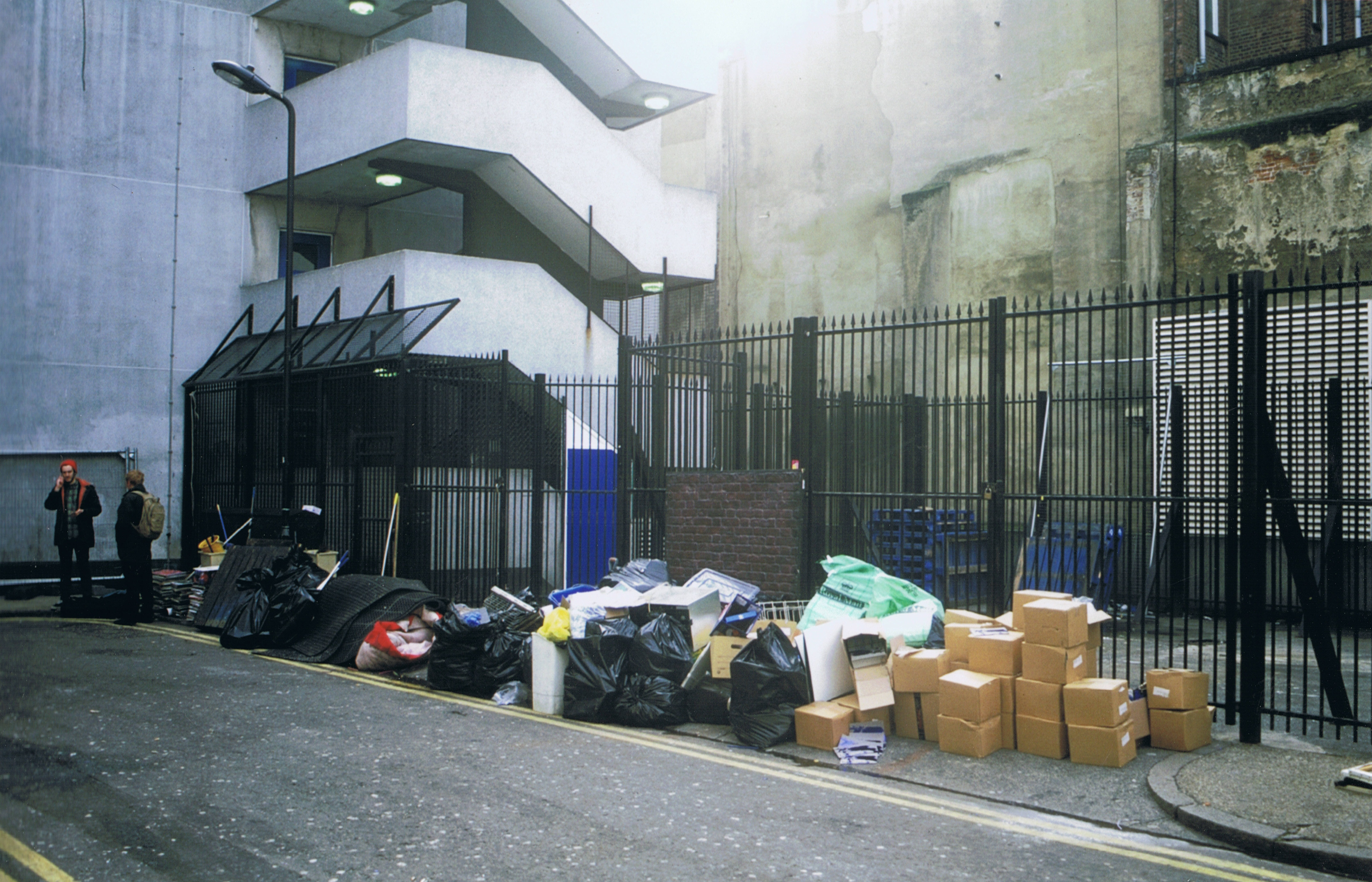 photo by R. de Salis (me) of the remains of the contents of The End's offices awaiting collection. end of January 2009.Rodolph (talk) 20:18, 13 January 2012 (UTC)